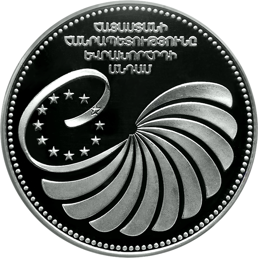 Commemorative coins of Armenia 2001 - Armenia joining the Council of Europe - 100 AMD - Silver 925